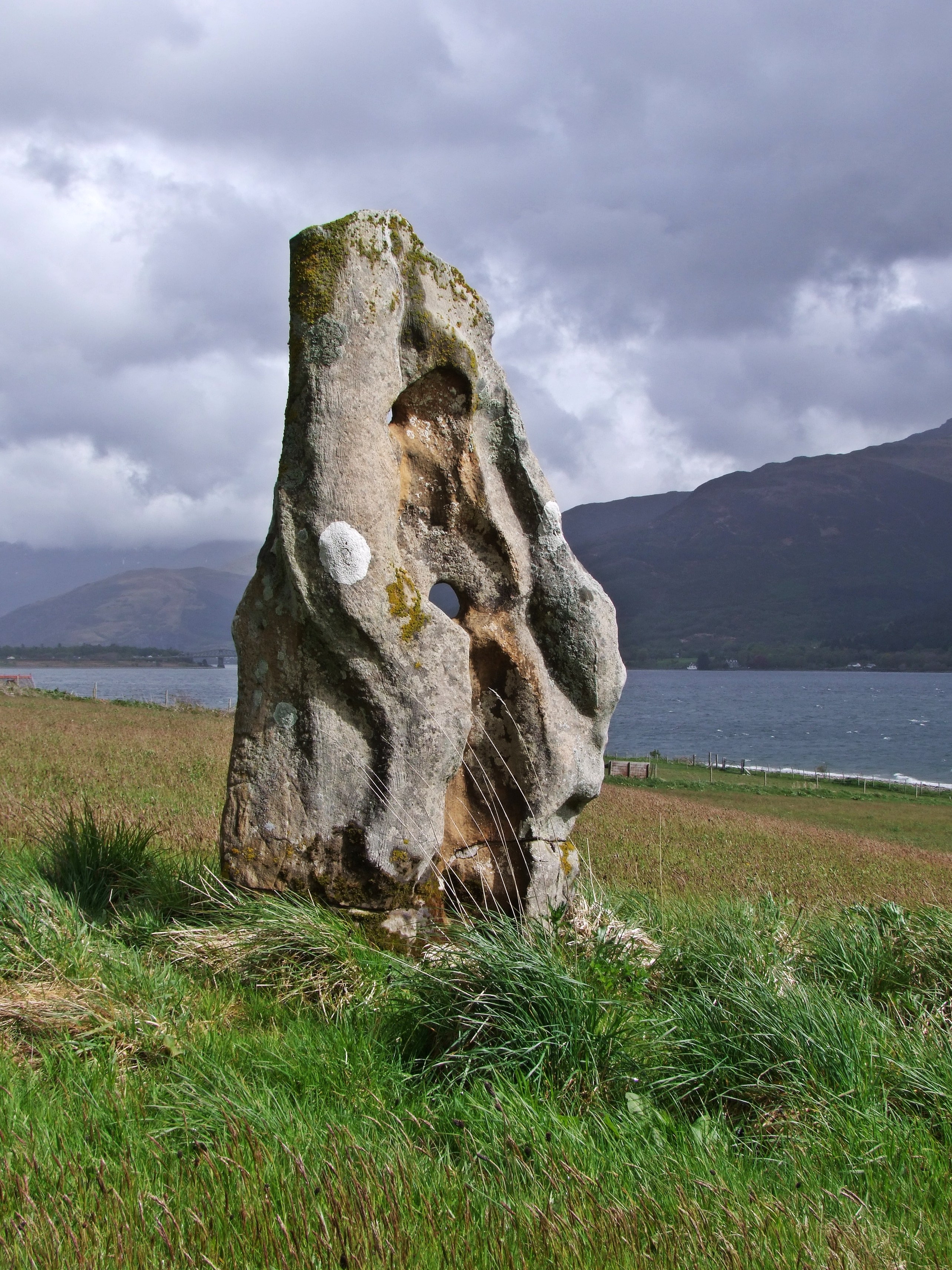 Standing stone in Highlands, Scotland, United Kingdom. Legend claims the Stone of Vengeance (Clach a' Charra) commemorates the supposed killing of John Comyn's two sons, in a settlement of accounts.